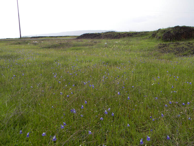 Madayi para in september